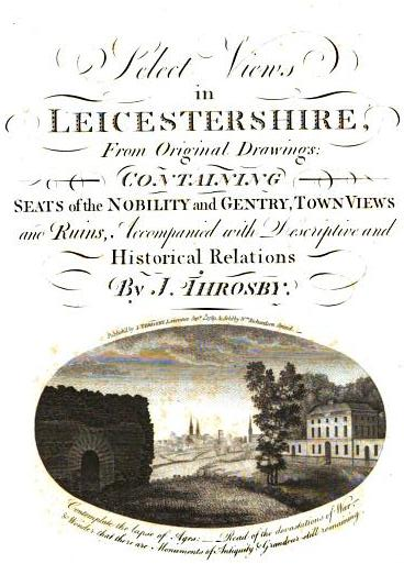 "Select Views in Leicestershire, from Original Drawings, Containing Seats of the Nobility and Gentry, Town Views and Ruins," title page, book by John Throsby. Supplementary volume to the Leicestershire Views, containing a series of excursions in the year 1790, to the Villages and Places of Note in the county. By John Throsby." Printed for the author by J. Nichols.